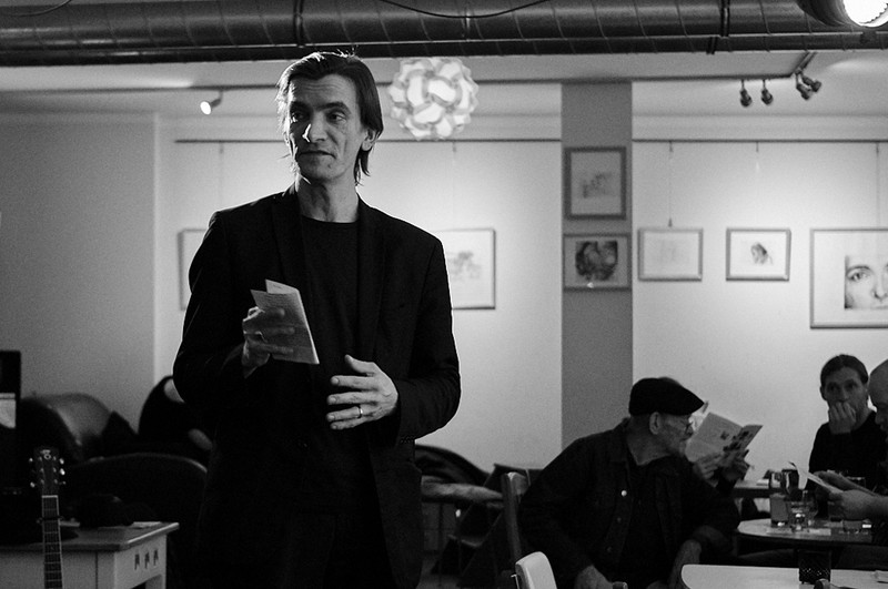 der Künstler bei einem Auftritt